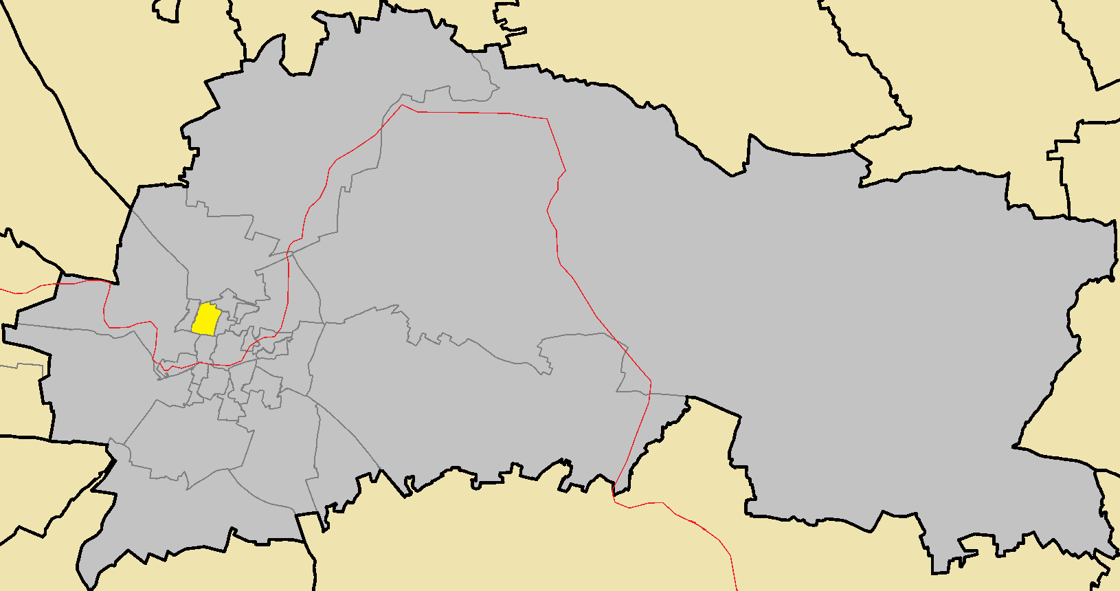 Imprachim Pasa in Nicosia Municipality (de jure).